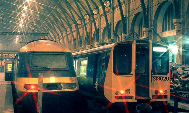 Resting at King's Cross station. 313020 at London Kings Cross. Note the mountain of parcels and mailbags on the right. The class 313s were occasionally used for parcel services out-of-hours in their earlier years. Jan 1982.